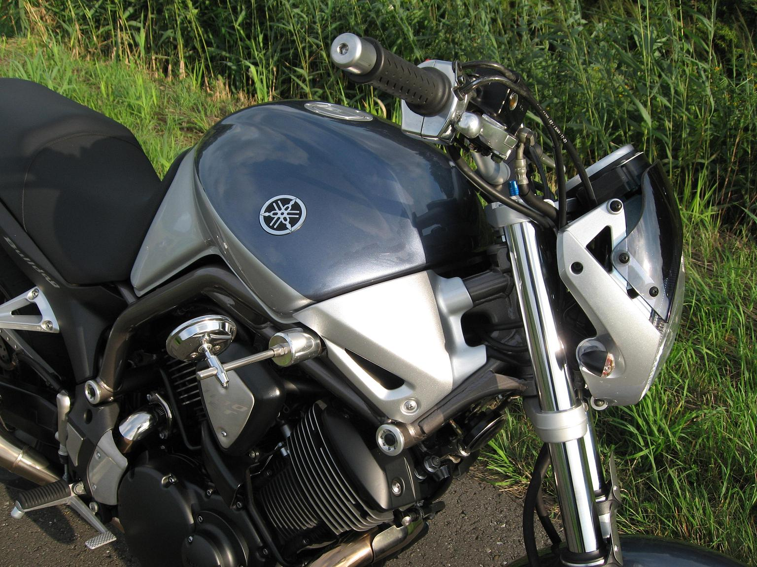 Fairing of the Yamaha Bulldog